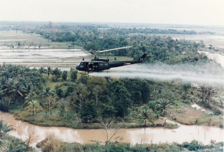 U.S. Huey helicopter spraying Agent Orange over Vietnam